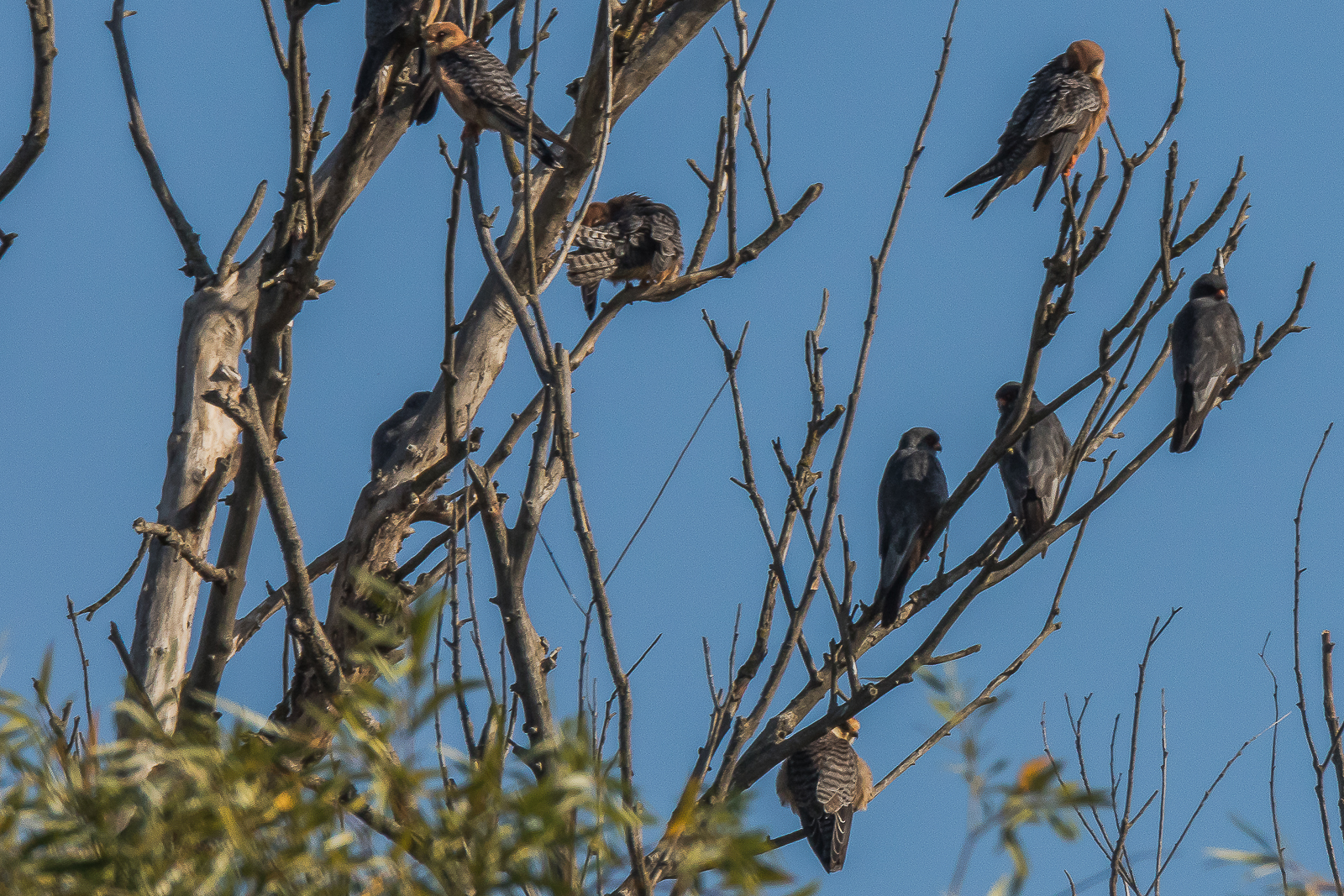 This is an image of the Biosphere Reserve: Astrakhan Nature Reserve